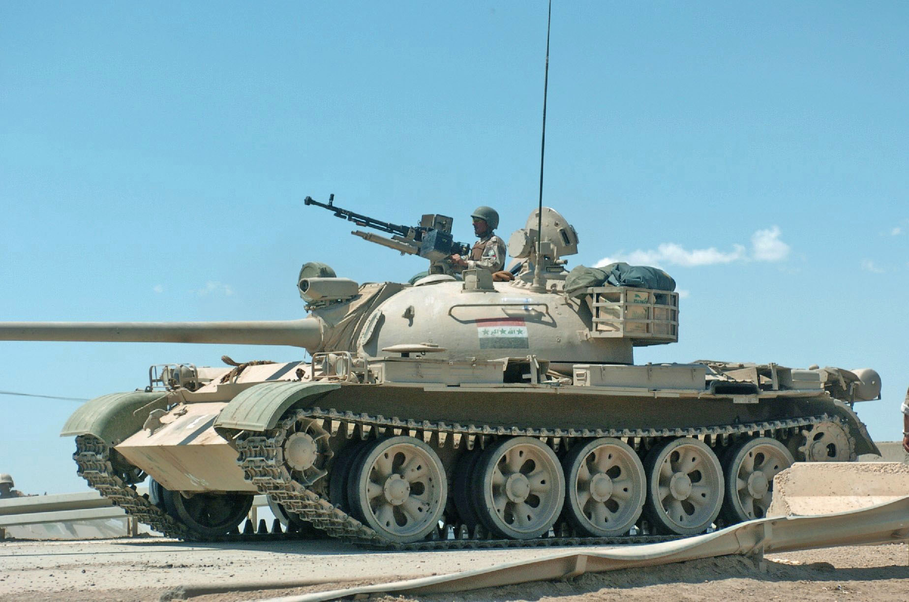 BAGHDAD: An Iraqi T-55 from the 1st Iraqi Mechanized Battalion, 1st Brigade, 9th Iraqi Army Division (Mechanized) guards an overpass near the Western Baghdad district of Abu Ghraib. T-55 Main Battle Tanks which once fought the coalition now work side by side with American forces in securing Baghdad from insurgent attacks. (Photo by SPC Maria Mengrone, 100th MPAD, U.S. Army)